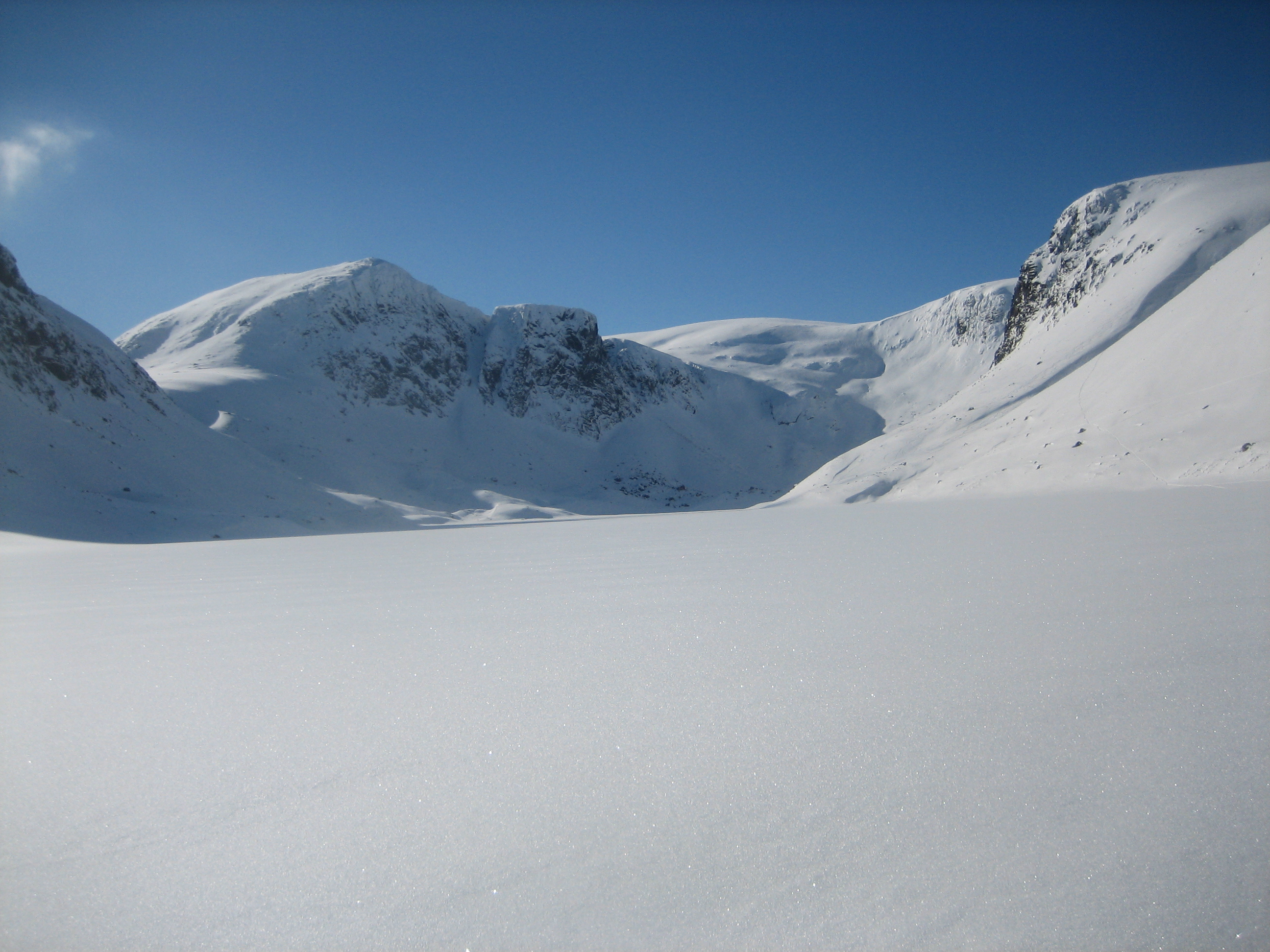 The middle of a very frozen Loch Avon, 21 Feb 2010